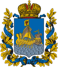 Kostroma gubernia (Russian empire), coat of arms